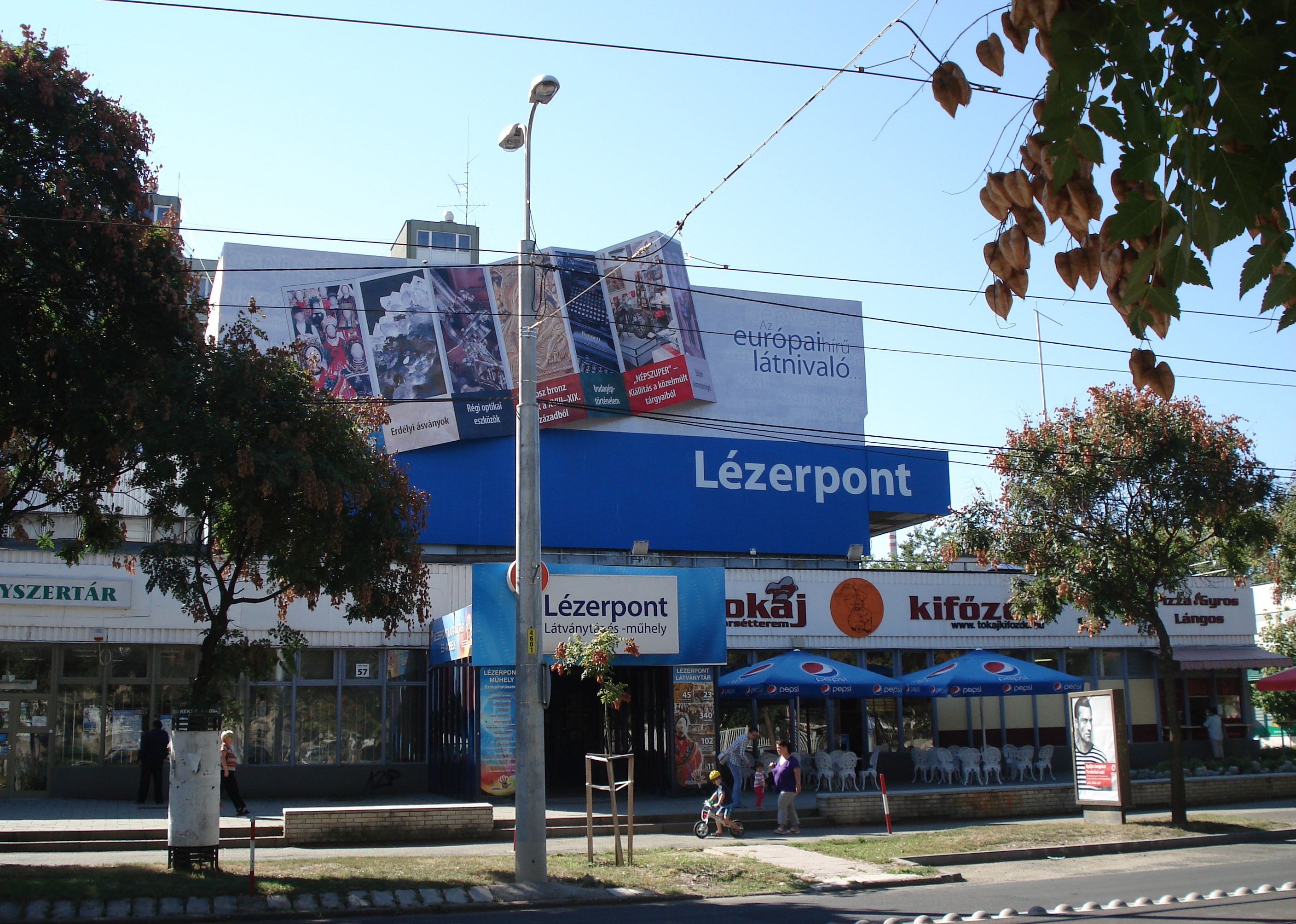 Laserpoint Museum, Miskolc, Hungary